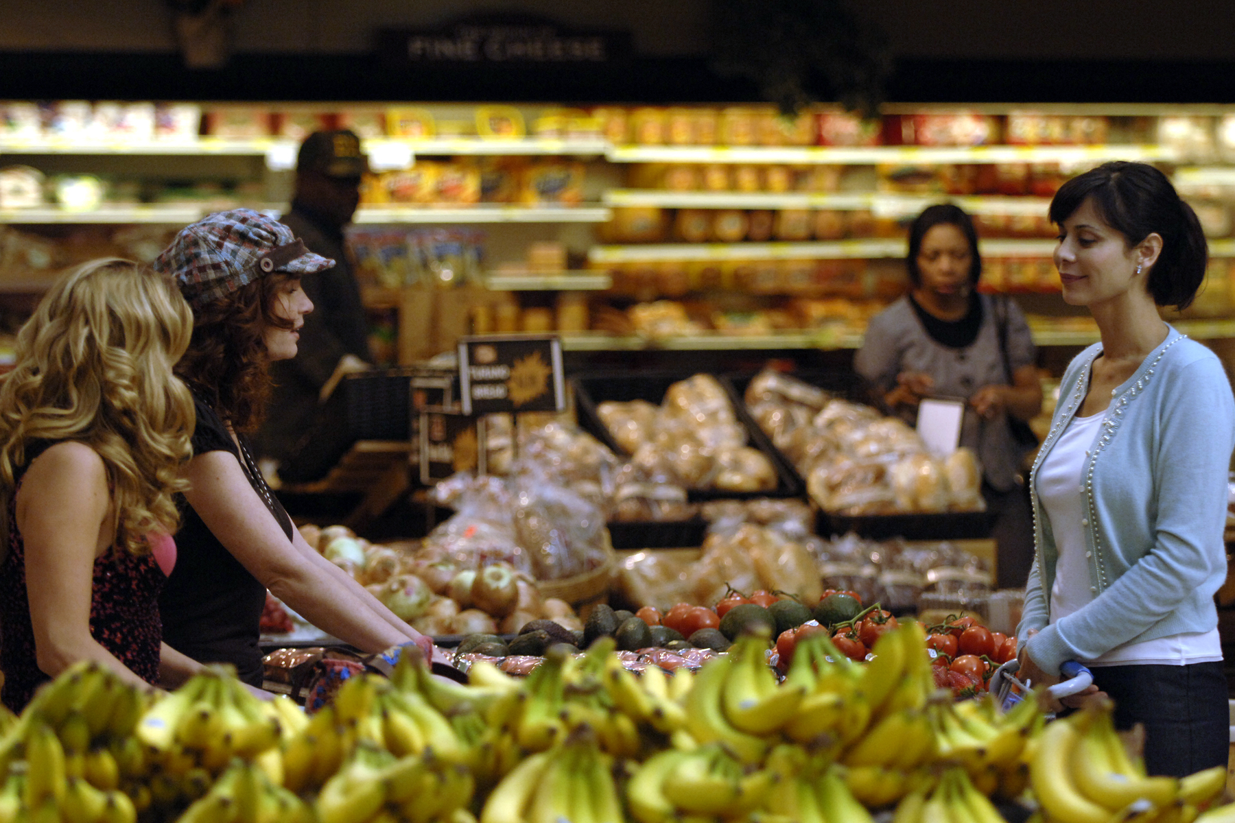 Left to right, Sally Pressman, Bridgid Brannagh and Catherine Bell act out a scene for an upcoming episode of the Lifetime Television show "Army Wives" at the base commissary Feb 23. The three are actresses on the television show "Army Wives."